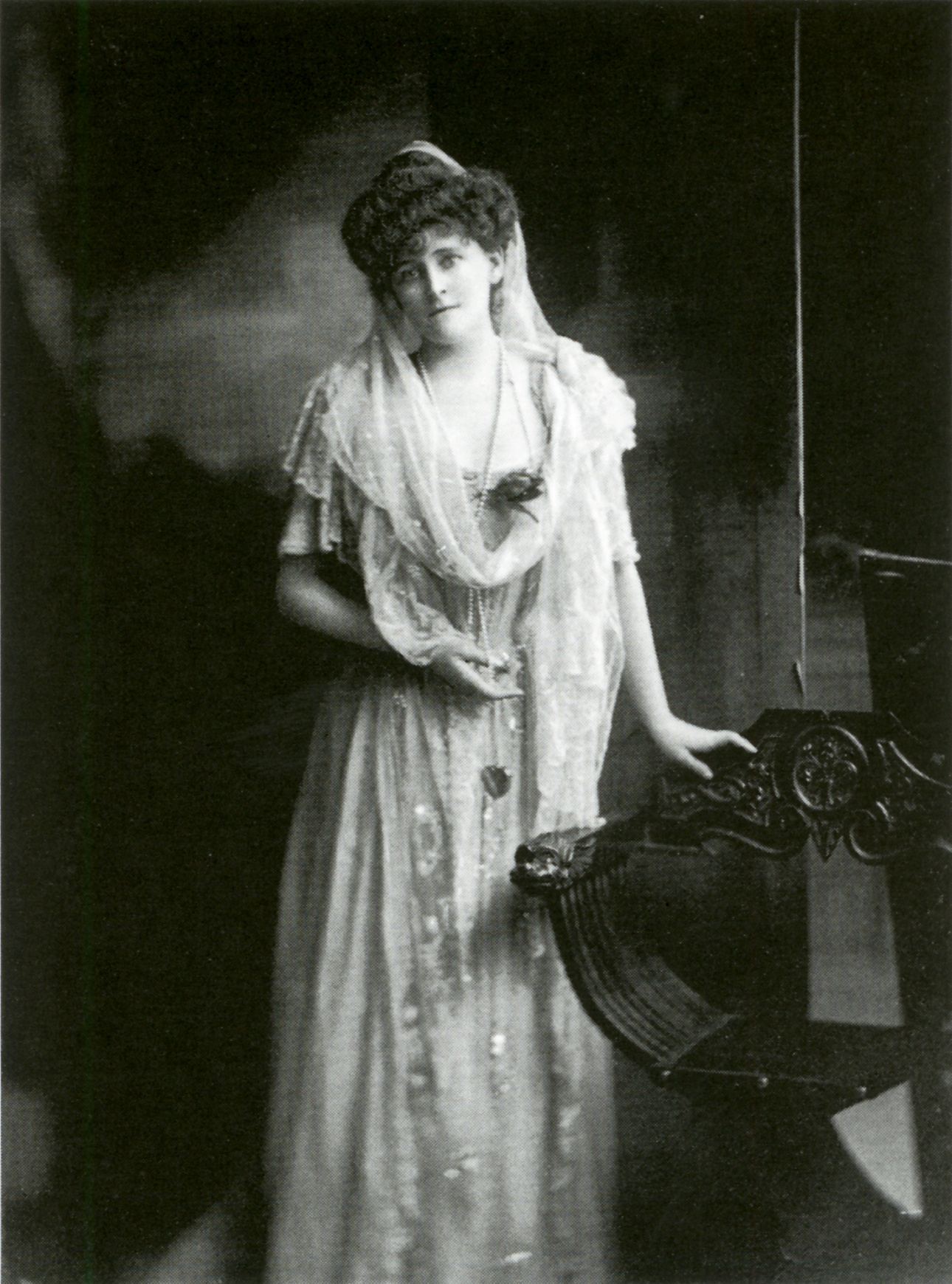 This image is a JPEG version of the original PNG image at File: Daisy, Countess of Warwick by H. Walter Barnett.png. Generally, this JPEG version should be used when displaying the file from Commons, in order to reduce the file size of thumbnail images. However, any edits to the image should be based on the original PNG version in order to prevent generation loss, and both versions should be updated. Do not make edits based on this version. See here for more information. Daisy, Countess of Warwick, 1861-1938. H. Walter Barnett (died 1934). Whole-plate glass negative. NPG x81485.